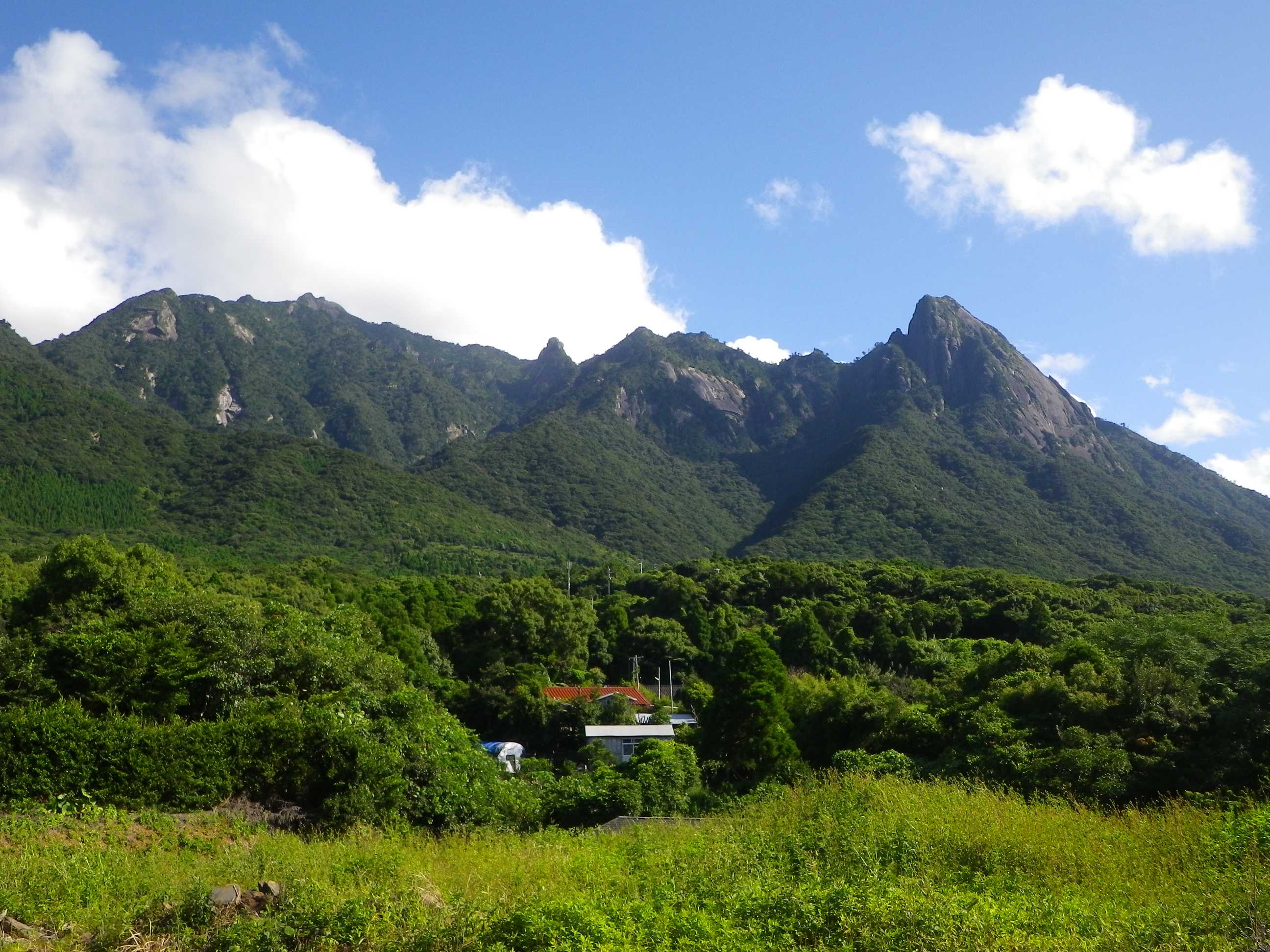 Onoaida 3 mountains as seen from the south. From left to right, Mt. Waishi (Waishi-dake), Mt. Mimi (Mimi-dake) and Mt. Motchomu (Motchomu-dake).